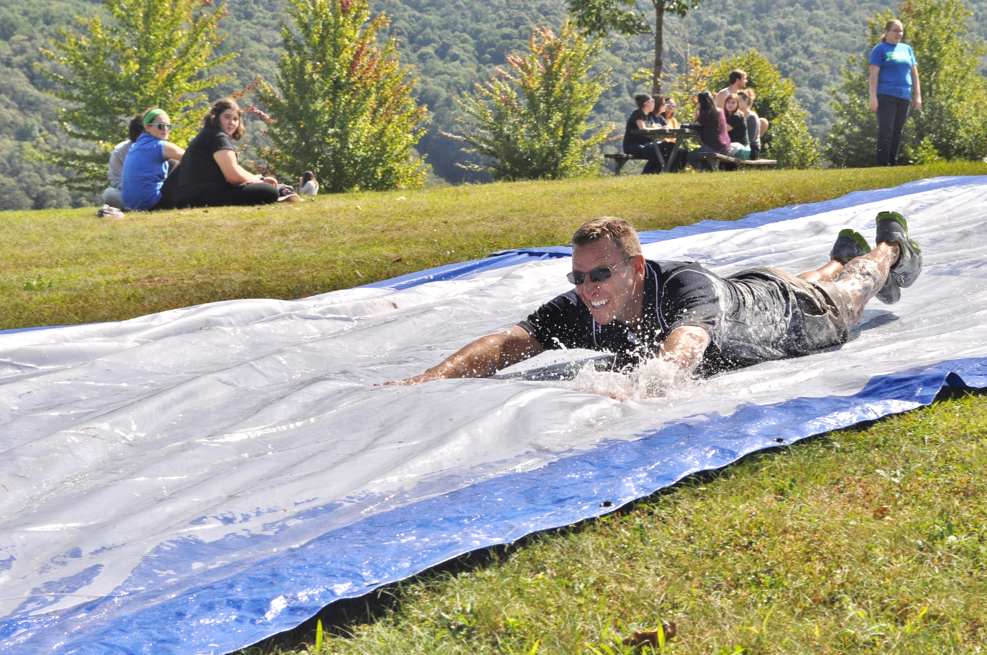 Campus Tradition